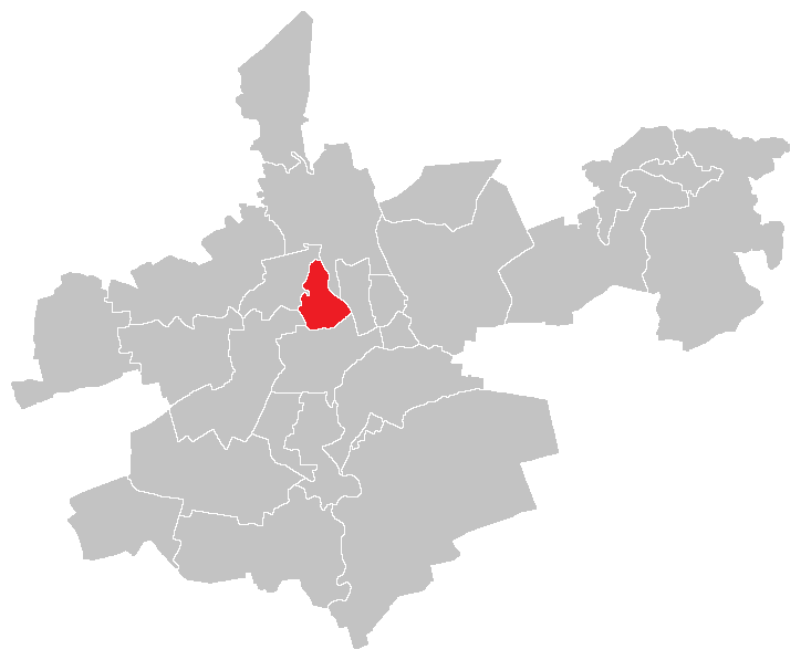 Location map of Olomouc district Lazce